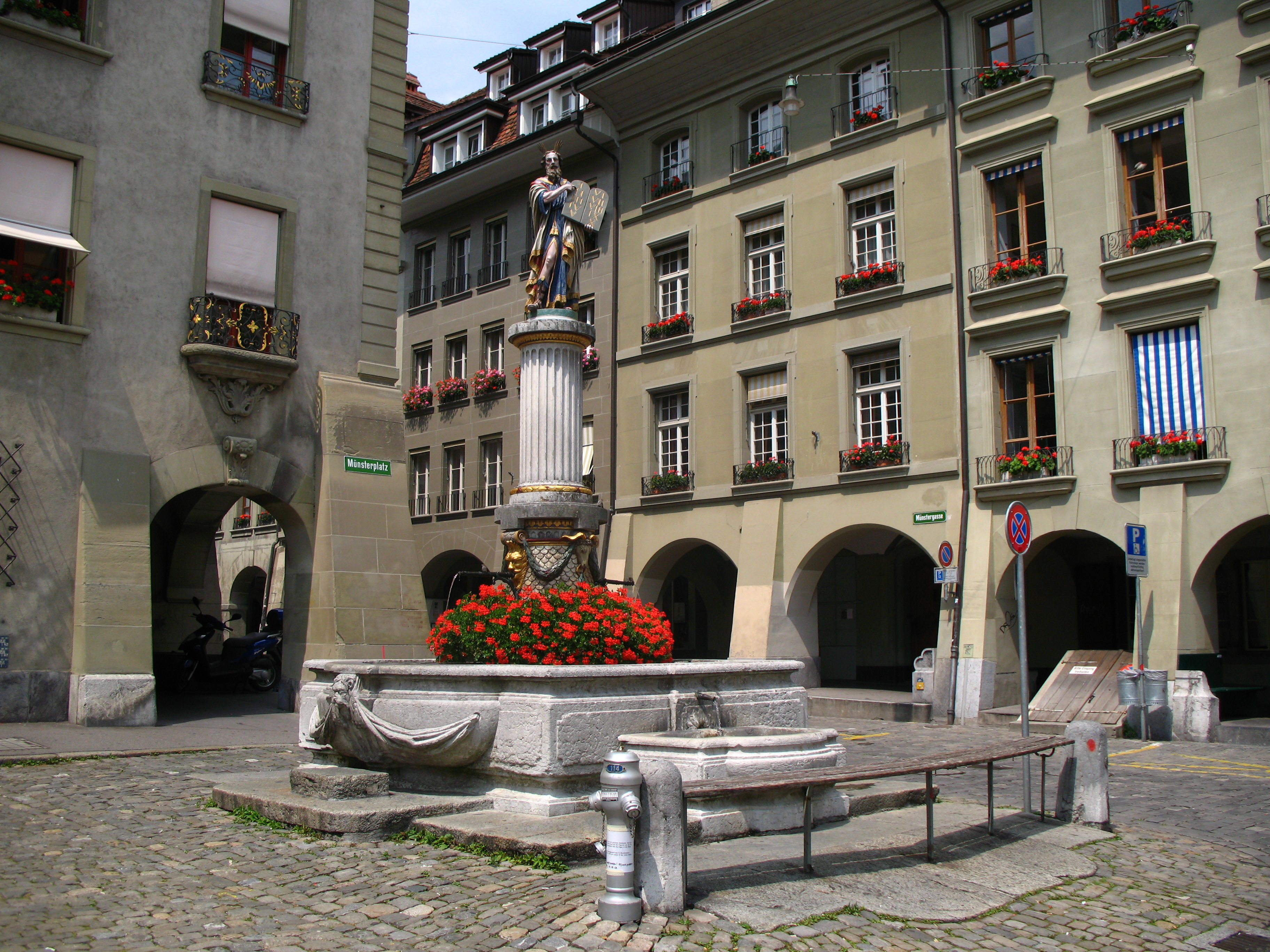 Moses Fountain on Cathedral Square, Berne, Switzerland